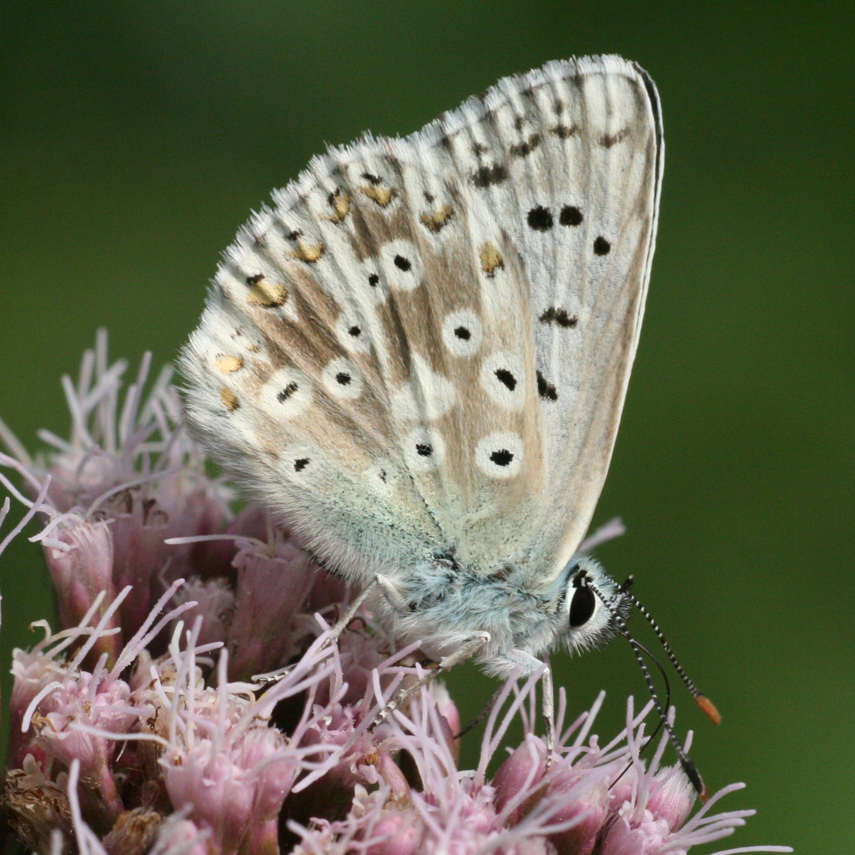 A male Chalkhill Blue butterfly (Polyommatus coridon), photographed in Lehrensteinsfeld